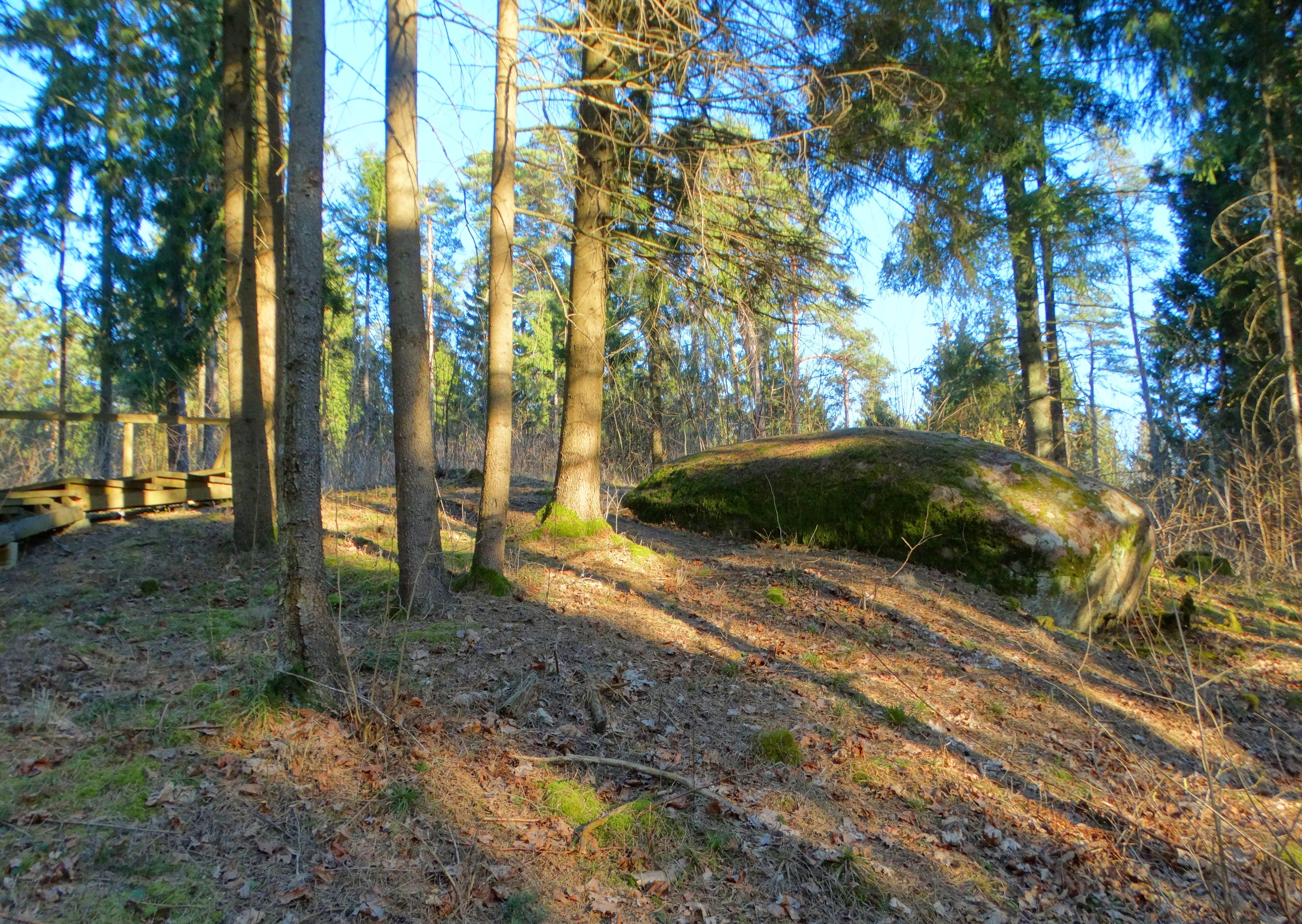 Martynas Stone, near Varputėnai, Šiauliai district, Lithuania